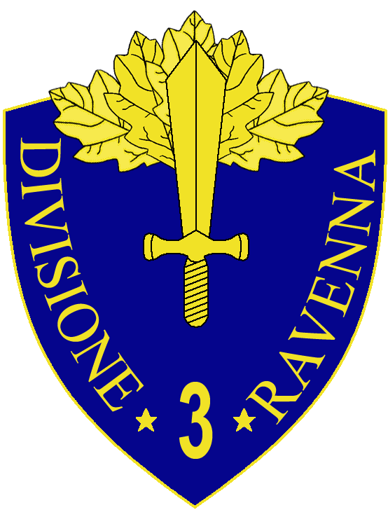 3a Divisione Fanteria Ravenna insignia, Regio Esercito, Italy, WWII